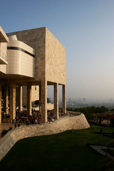 The Getty Center, taken November 24, 2006 by Brian Davis